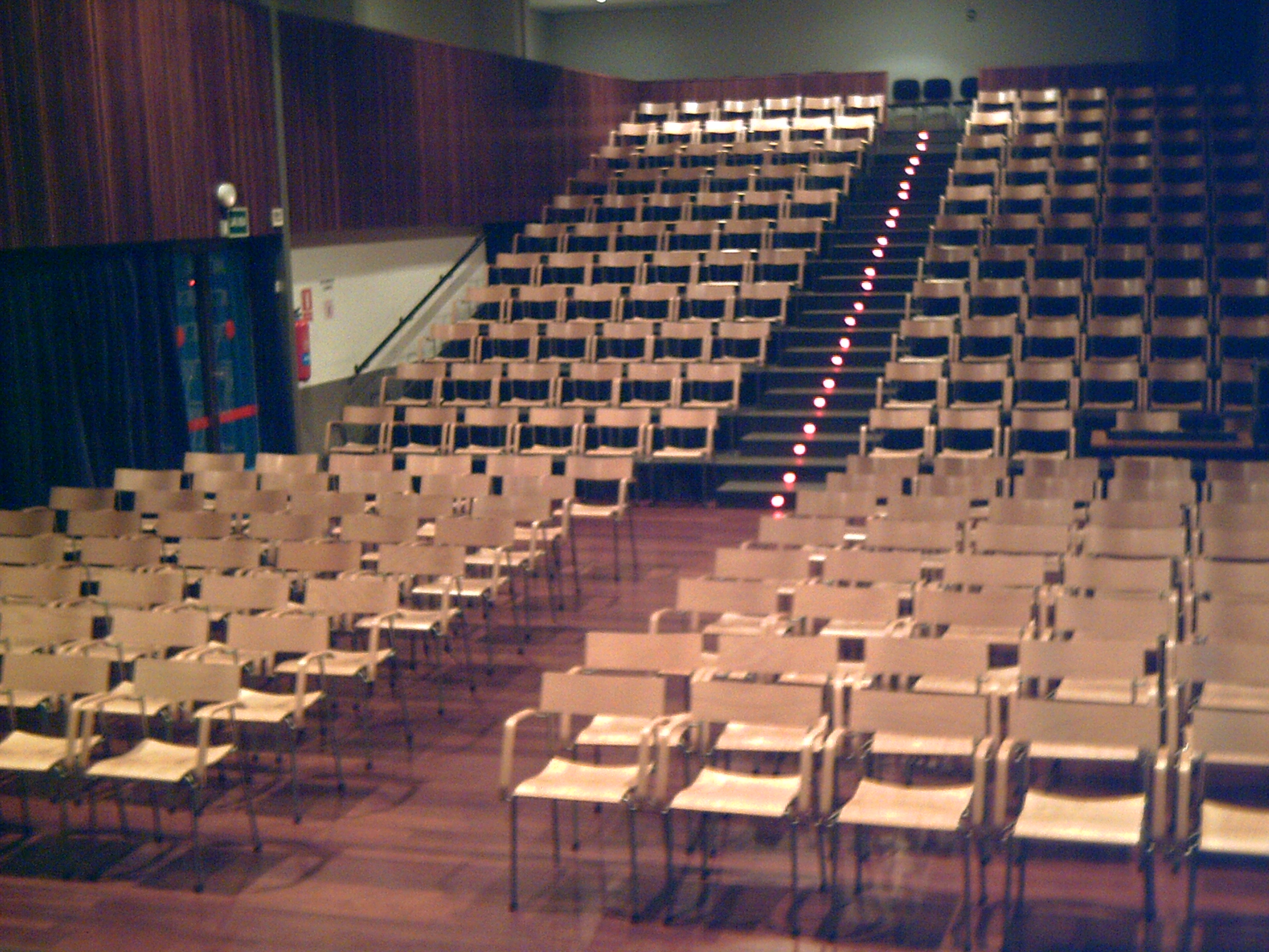 Teatro de la Biblioteca Torrente Ballester